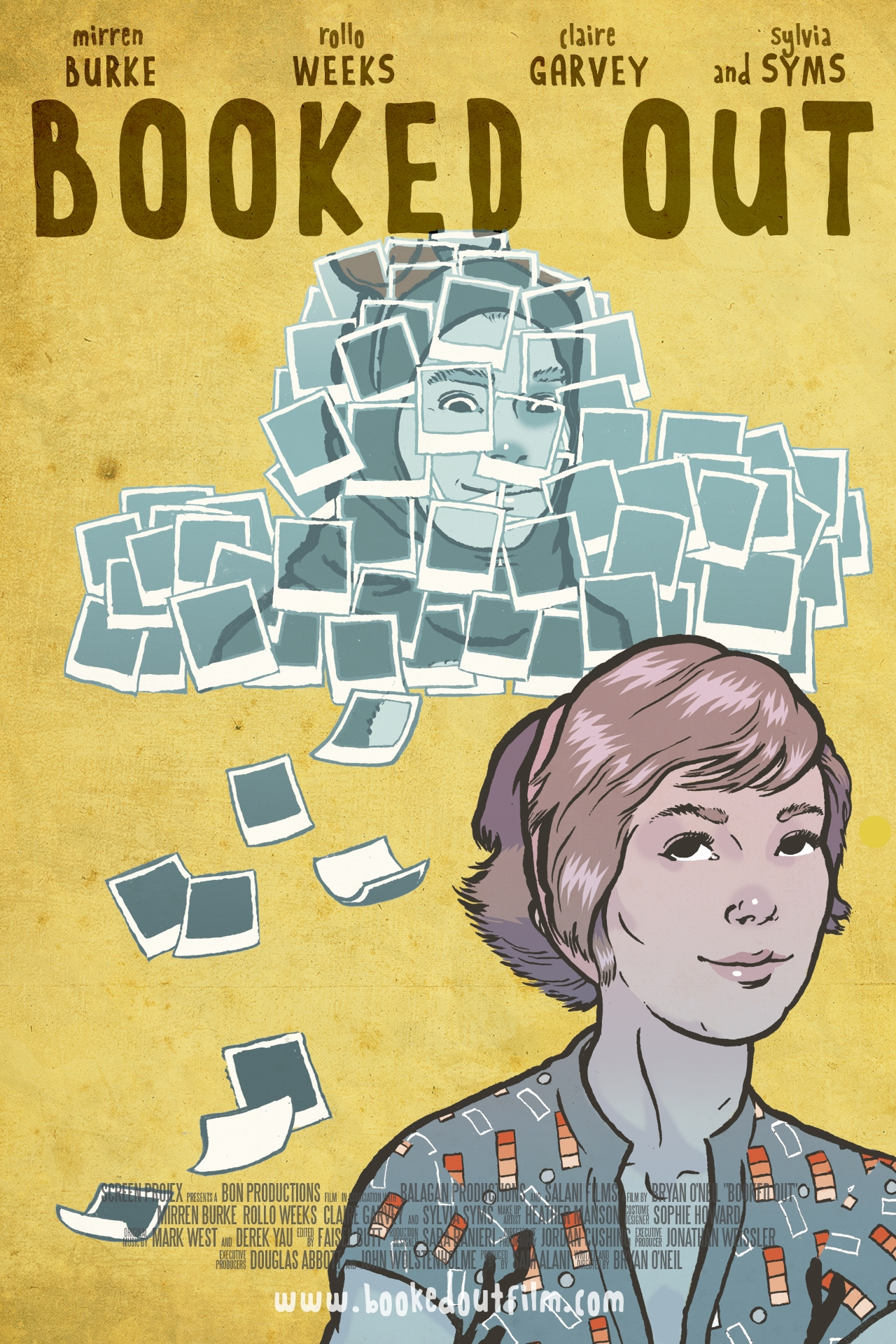 Booked Out movie poster